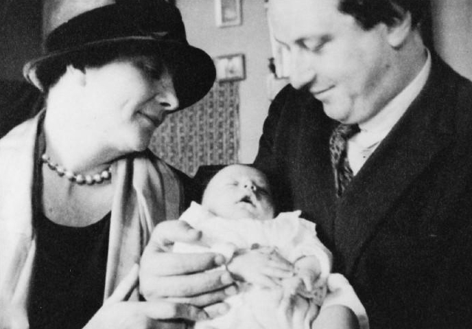 Arthur Honegger (1892-1955) and Claire Croiza (1882-1946) with their son Jean-Claude in April 1926.